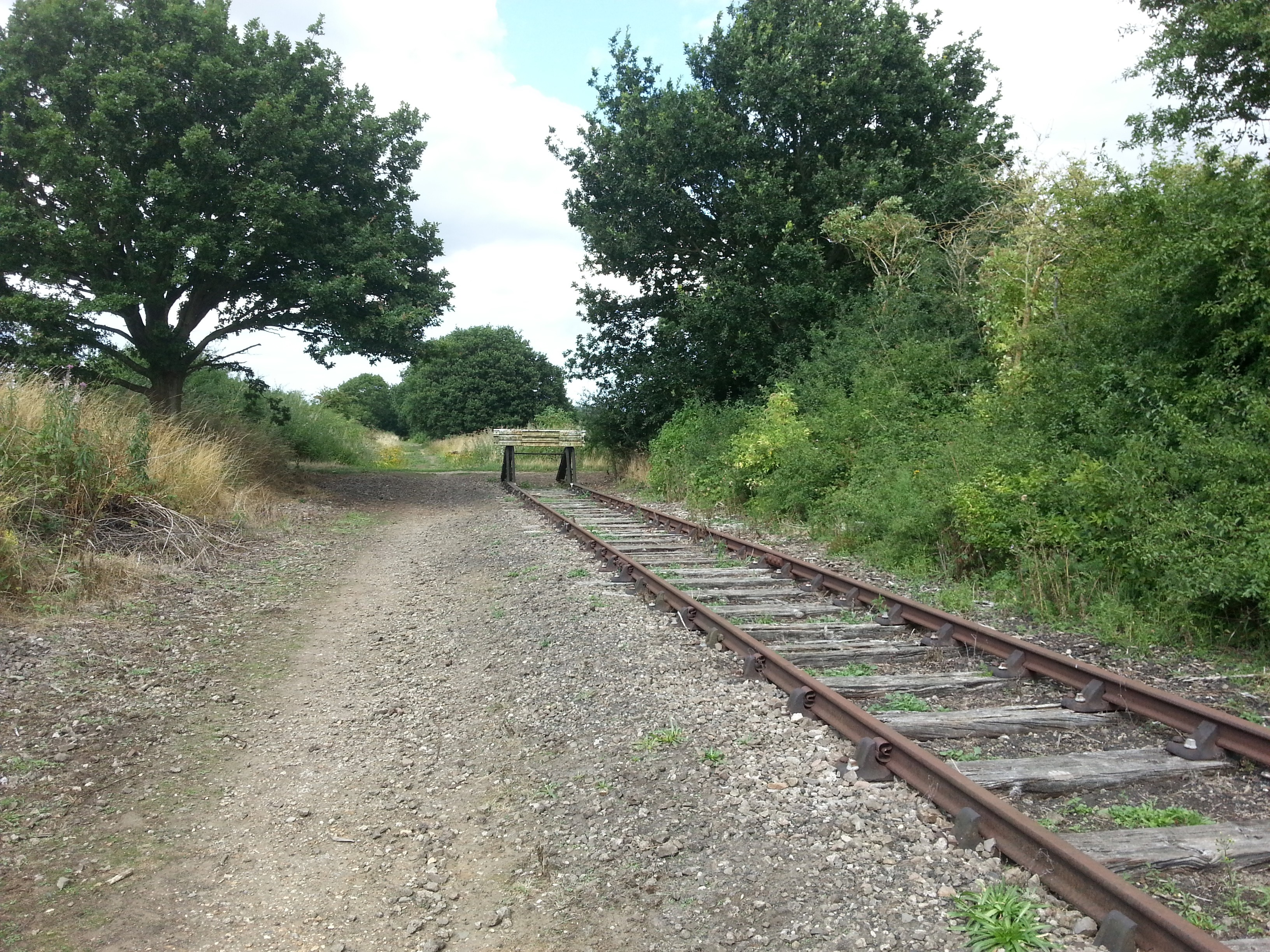 North Elmham buffer-stop north of the derelict North Elmham station on the Mid-Norfolk Railway 19 August 2013.